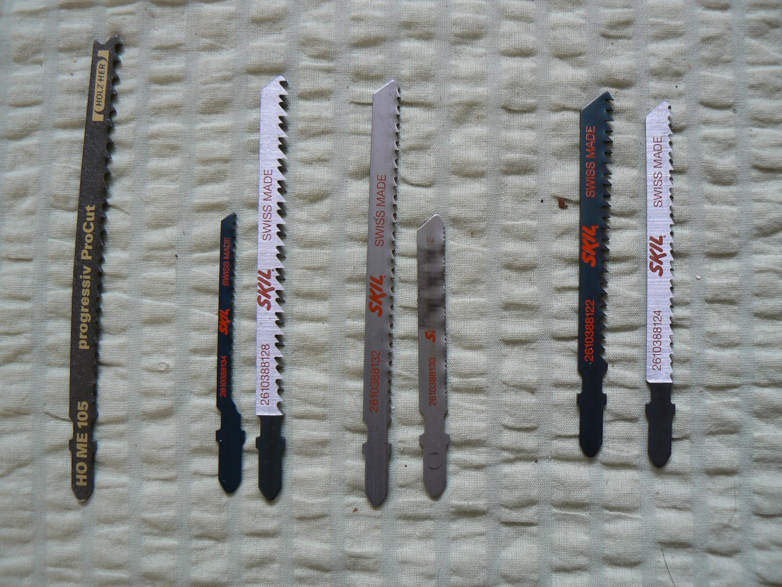 Different types of saws for jigsaw